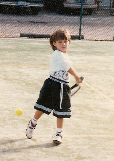 Devin Britton, Ole Miss star and 2009 NCAA Men's Singles tennis national champion, at age 4 playing at Colonial Country Club in Jackson, Mississippi.